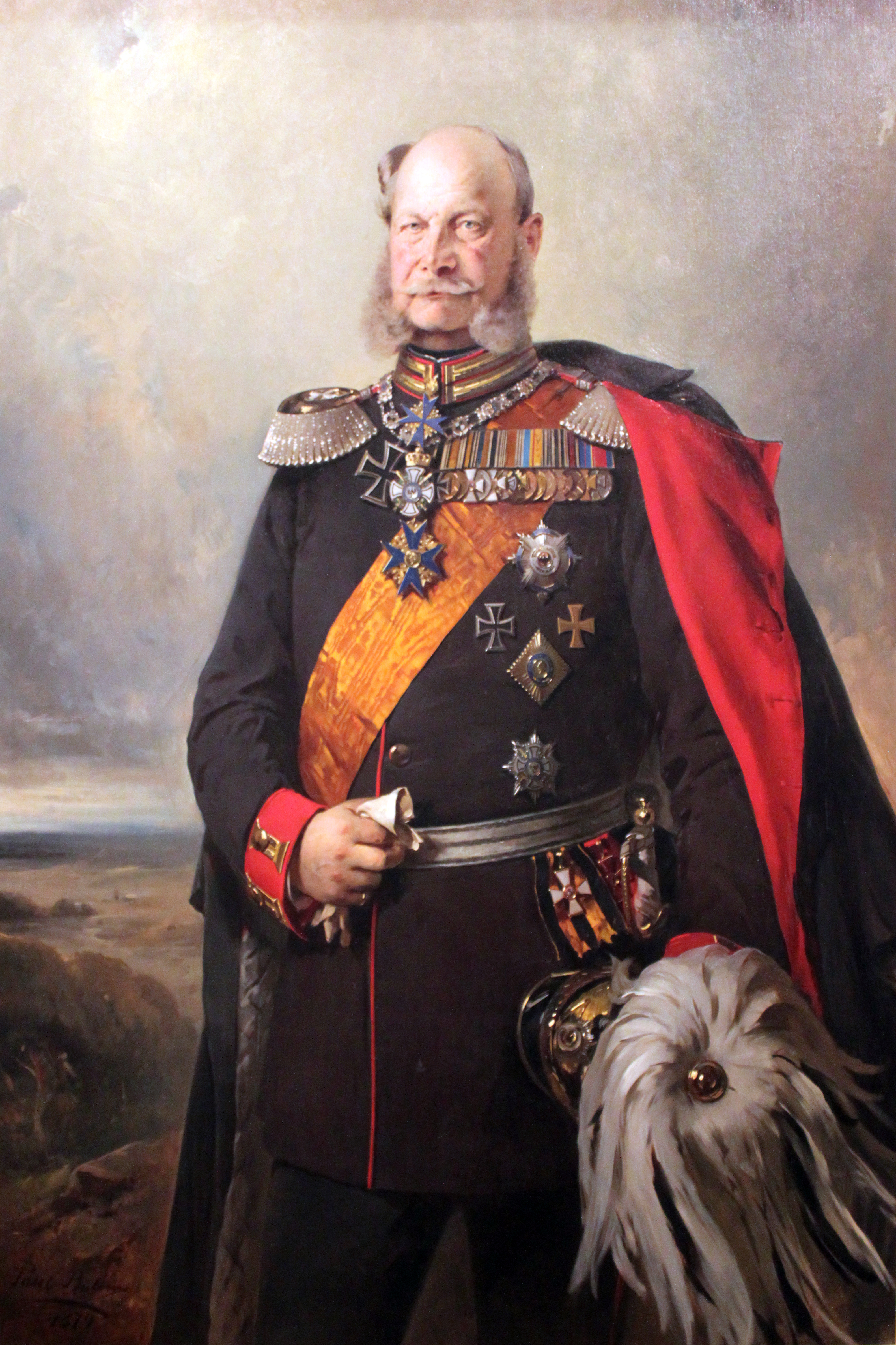 Kaiser Wilhelm I. in der Paradeuniform eines Generalfeldmarschalls des 1. Garderegiments zu Fuß